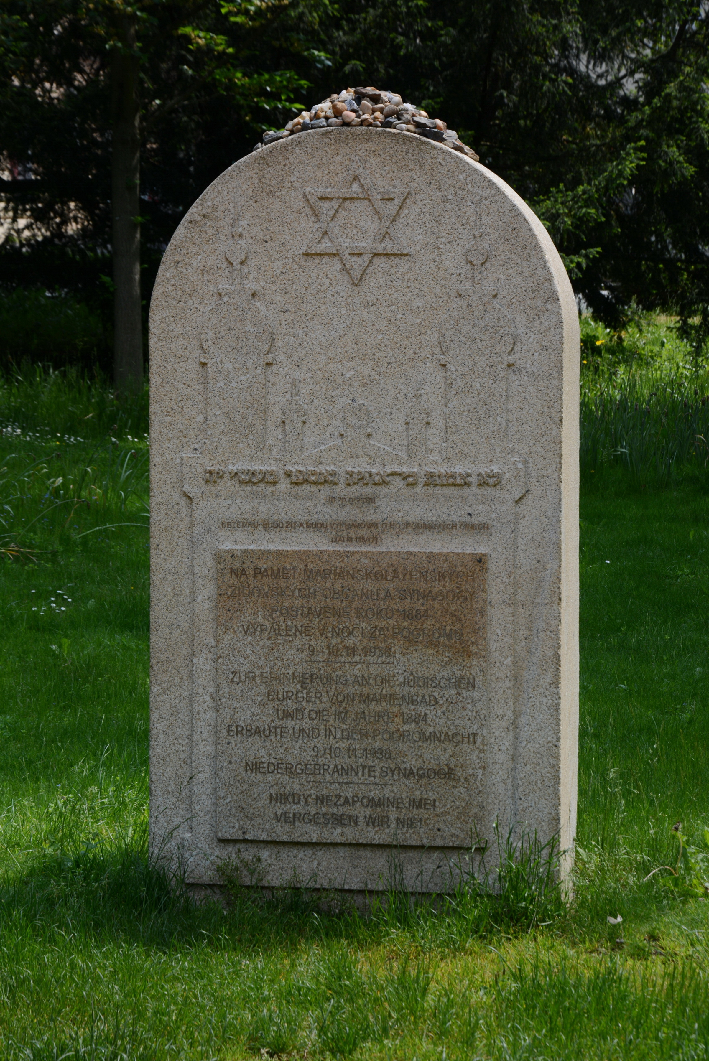 Memorial of Synagogue in Marienbad